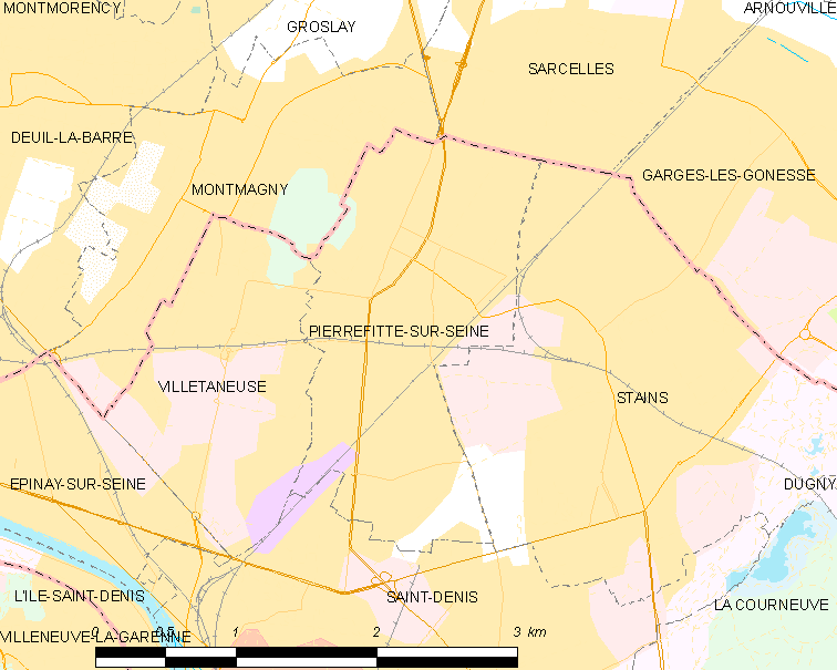 Map of French municipality Pierrefitte-sur-Seine